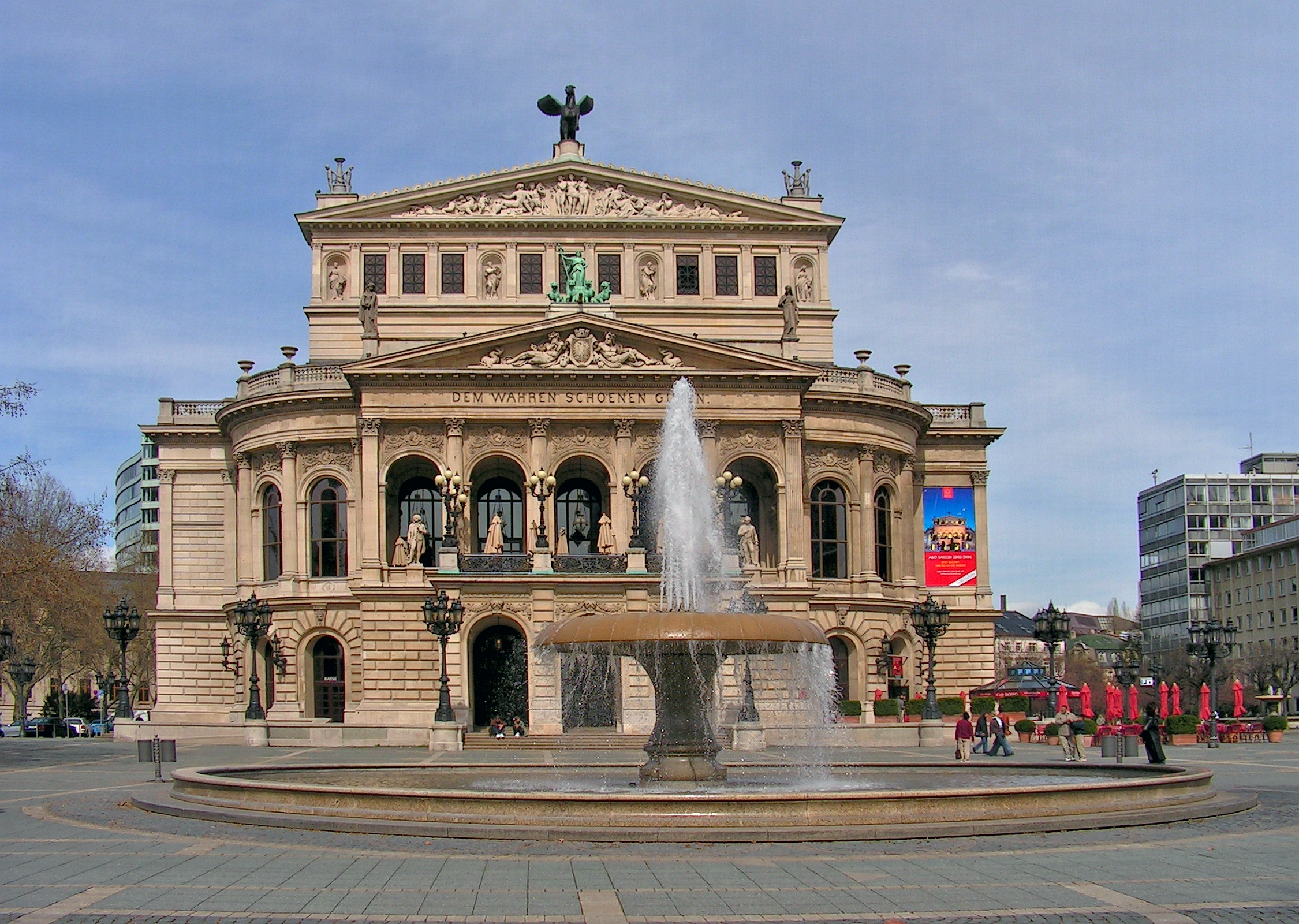 Place of the Opera and the "Alte Oper" with the main entrance on the south side. The building from 19th century was built up in 1880 and rebuilt after the destruction and re-built in 1981. Frankfurt/Main, Hessen, Germany. - Photo Wolfgang Pehlemann PICT_34 - Opera